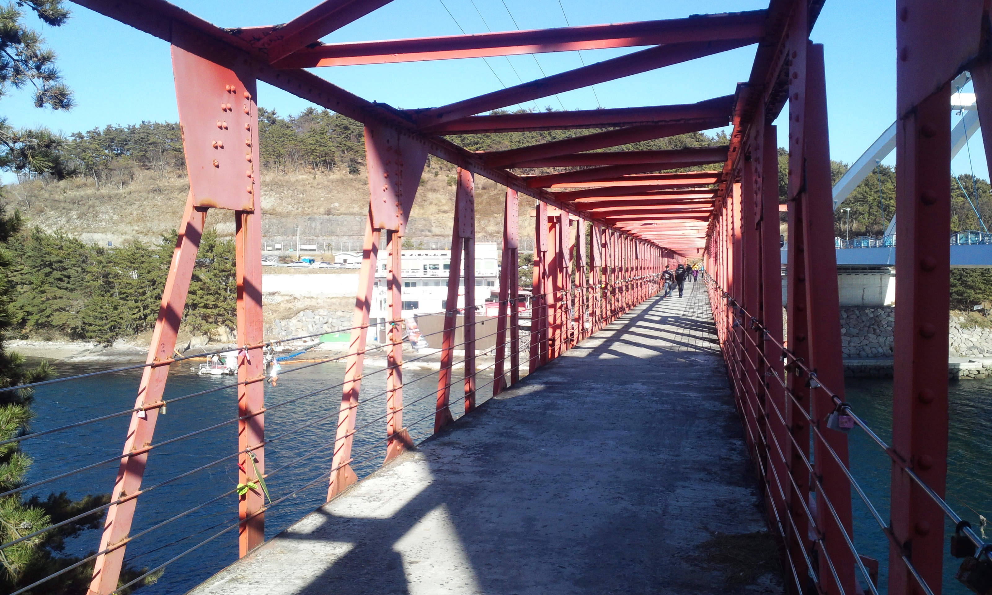 Masan Jeodo bridge on January 1st, 2015 in Changwon, South Korea.